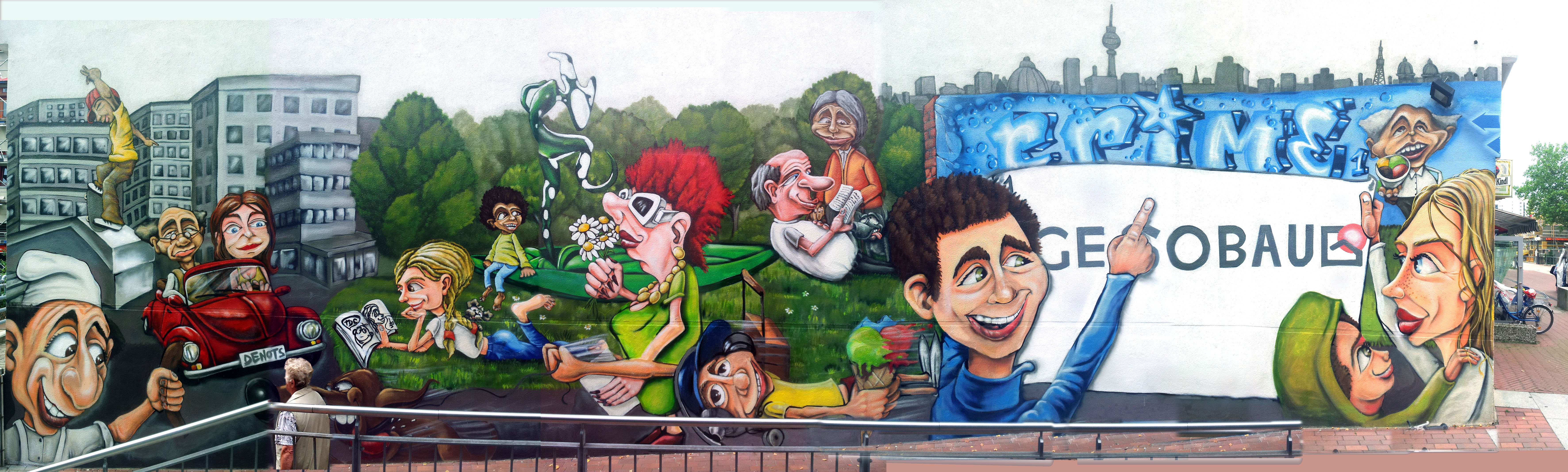 2012 Mural Street Art Project by Crime TDC